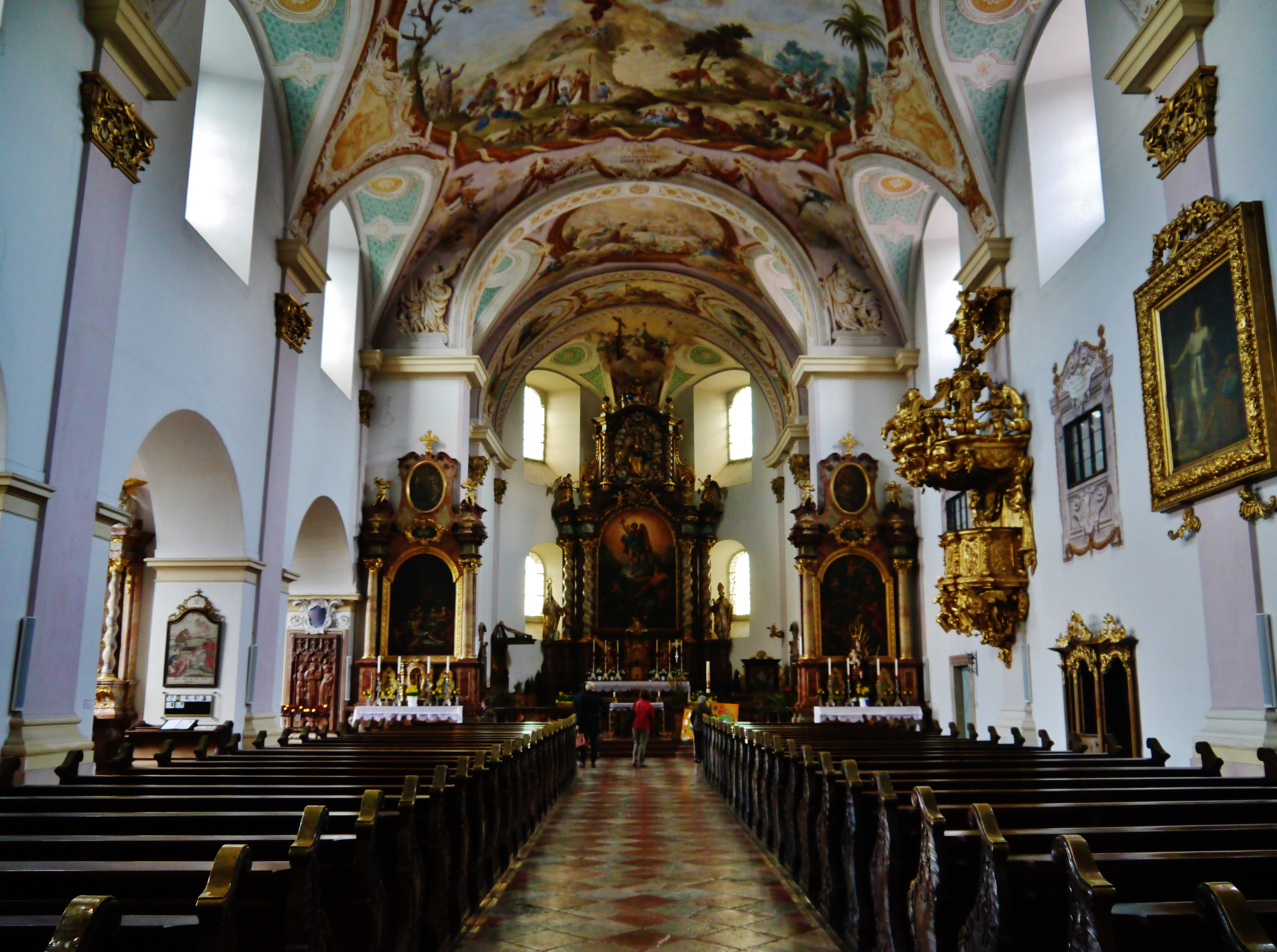 Nave of Reichersberg Abbey Church, Reichersberg, Upper Austria, Austria